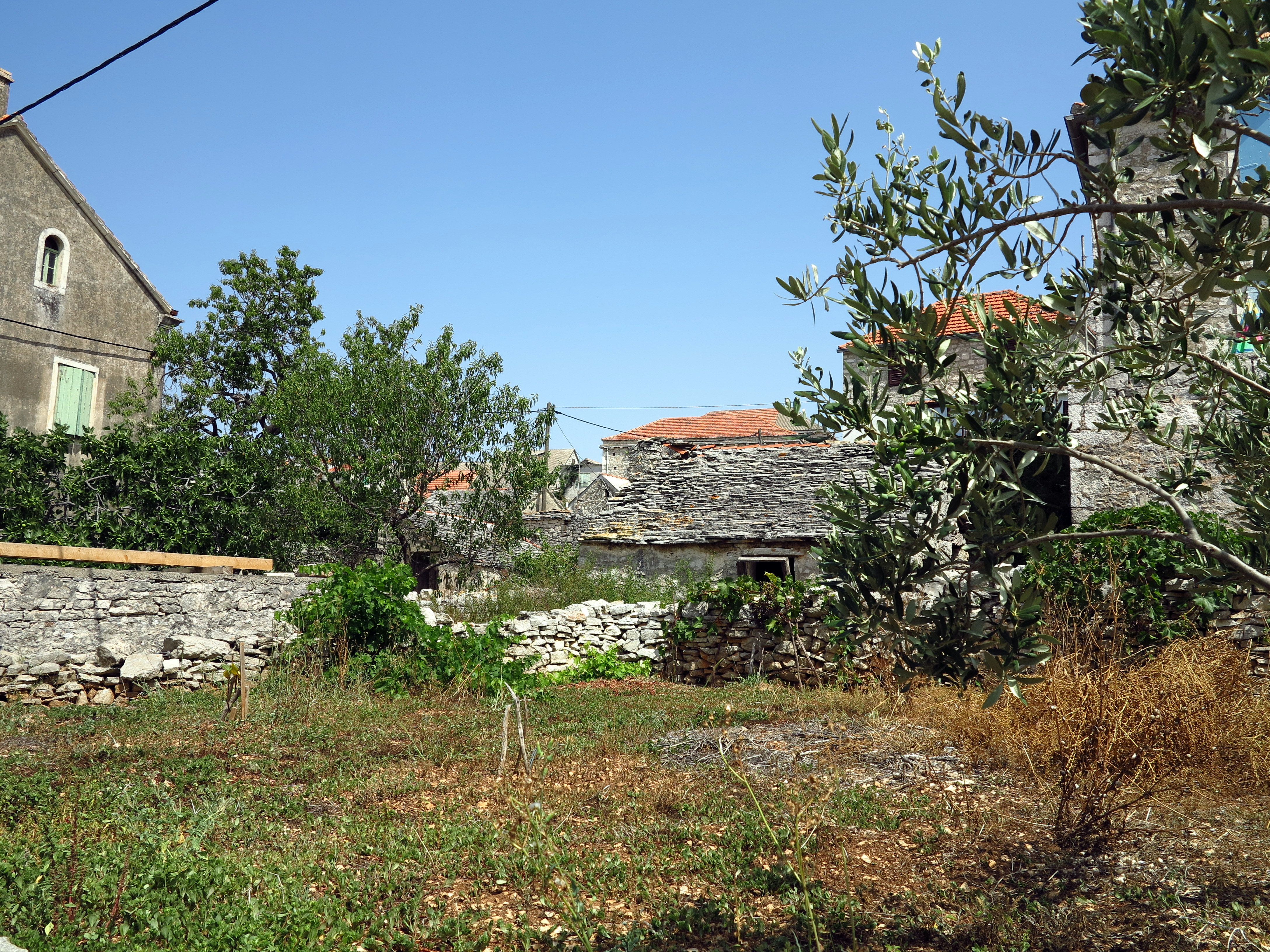 Srednje Selo on the island Šolta / Croatia / Adriatic Sea.